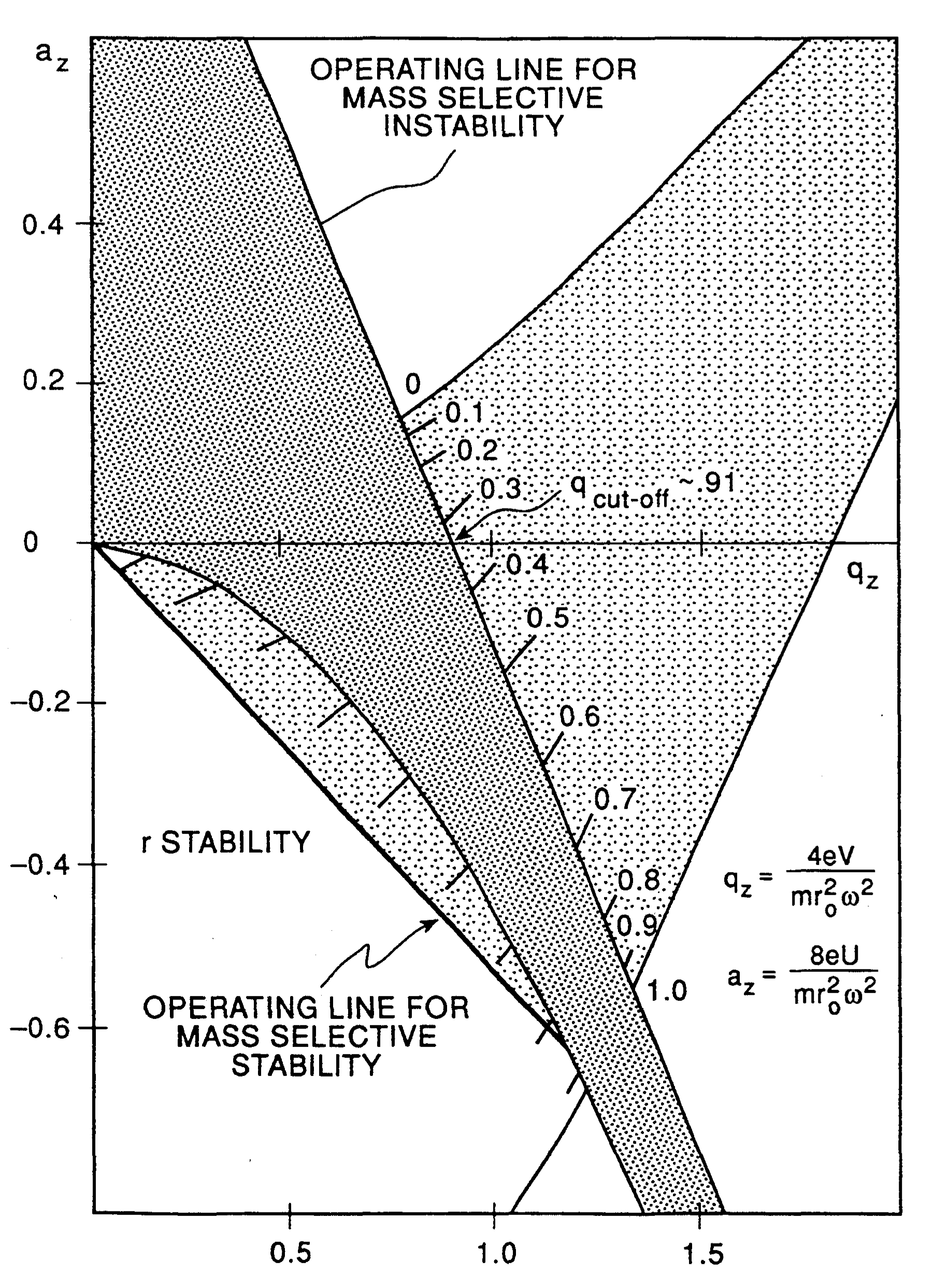 Diagram of the stability regions of a quadrupole ion trap according to the voltage and frequency applied to the ion trap elements.[1] From Patent 5399857 "Method and apparatus for trapping ions by increasing trapping voltage during ion introduction" US Patent Issued on March 21, 1995